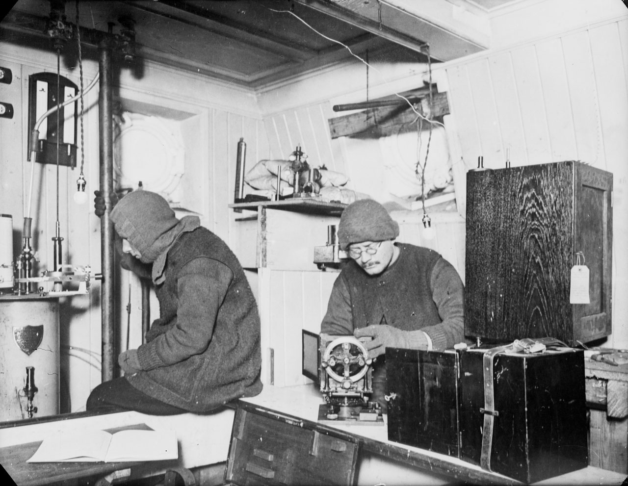 Reproduction ID: P00012 Maker: James Francis Hurley Date: March - August 1915 Materials: Gelatine dry plate Henley Collection